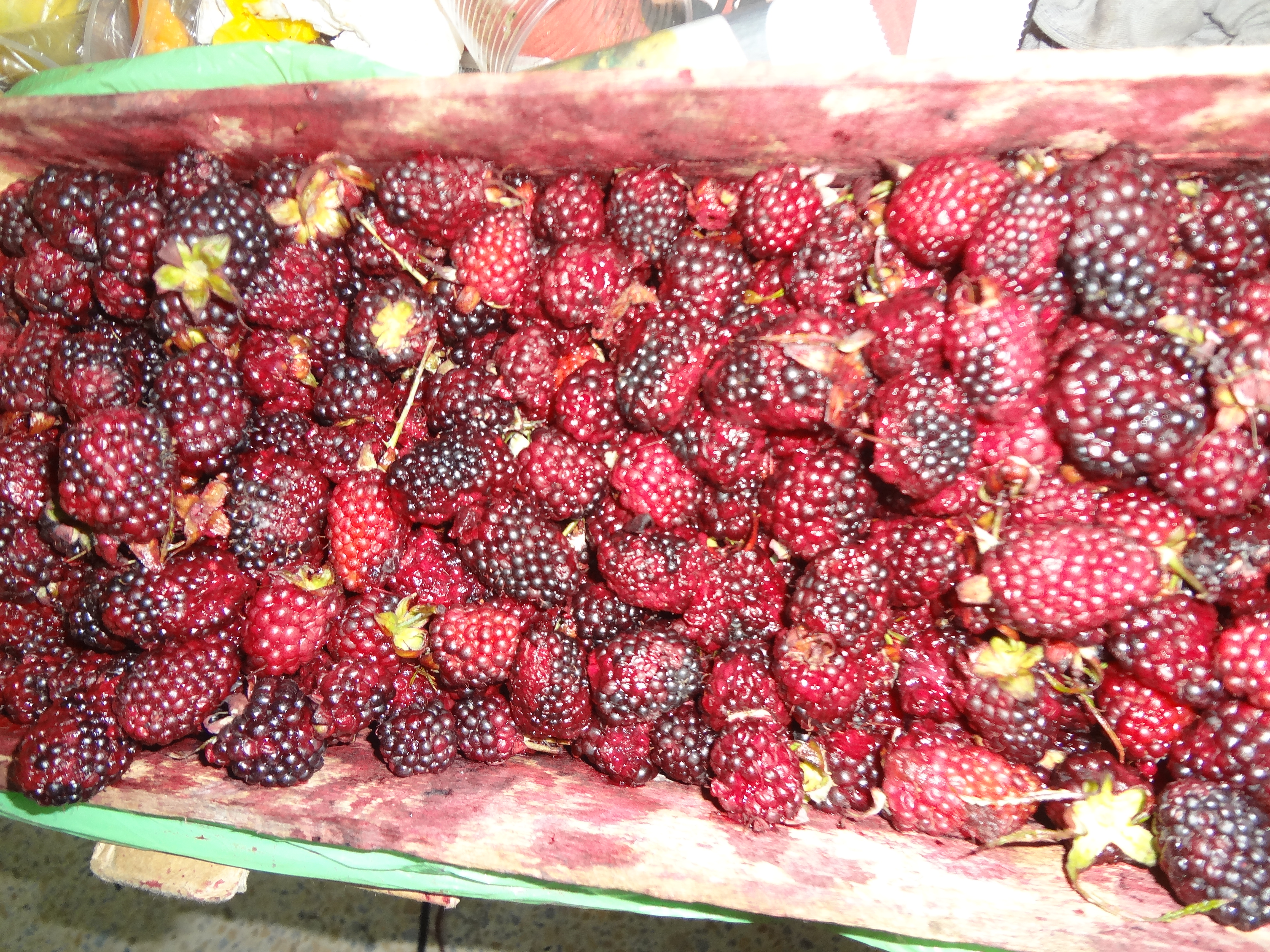 (Mora es el nombre que reciben diversos frutos comestibles de distintas especies botánicas.)